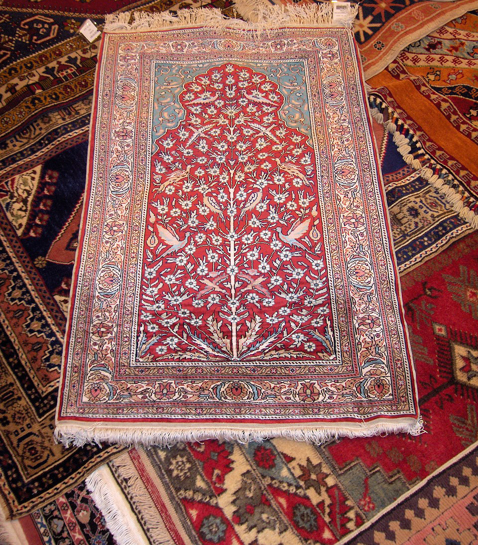 Traditional Turkish carpet; Hadosan, Urgüp, Cappadocia, Turkey